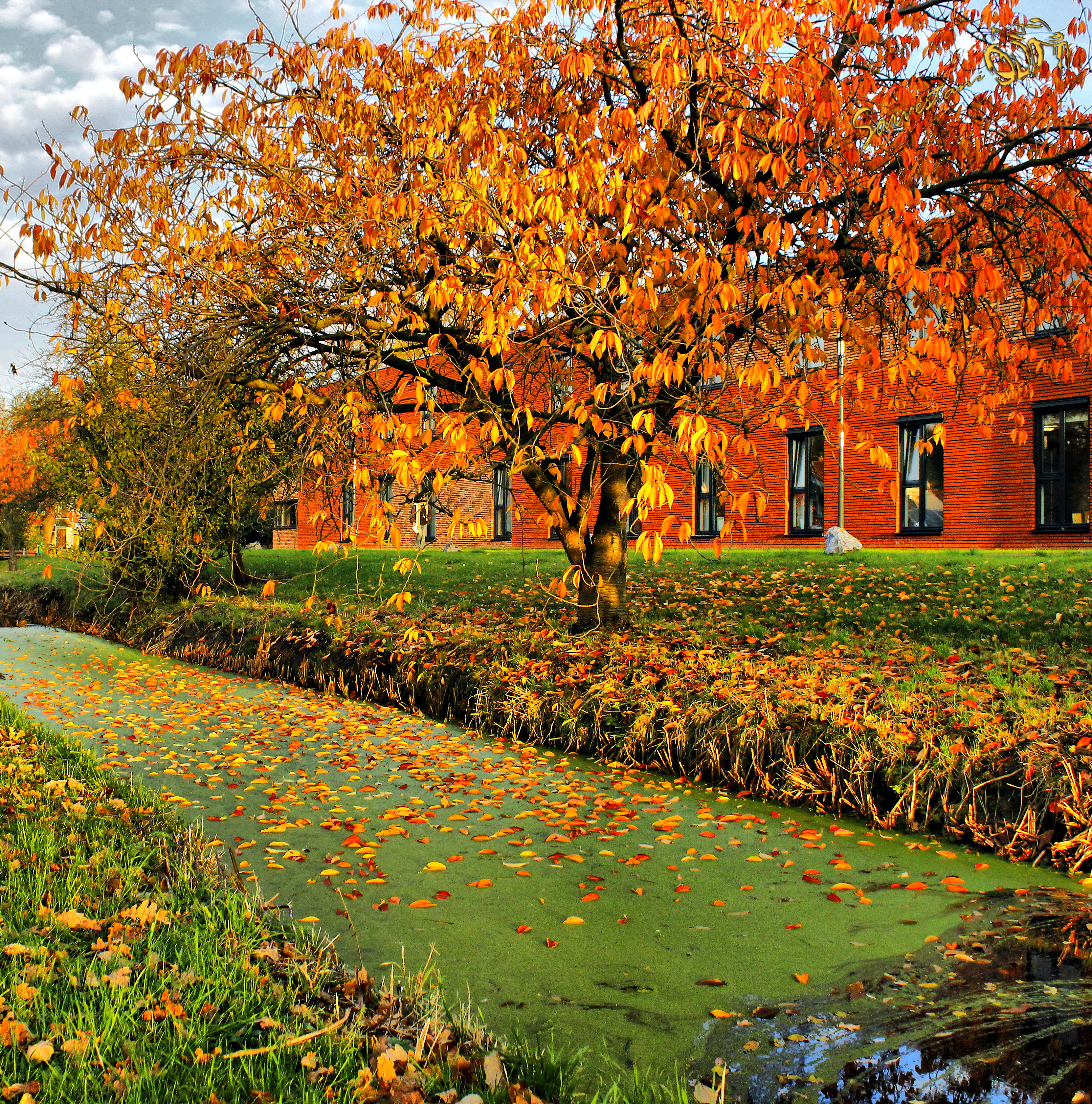 Autumn in Netherlands